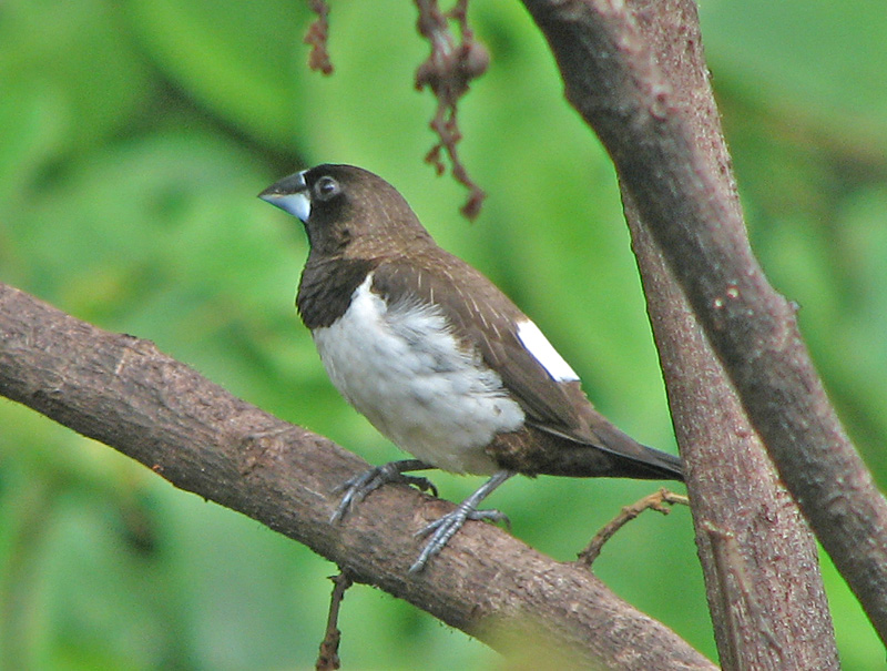 White Rumped Munia (Lonchura striata). Mangalore, Karnataka (India).